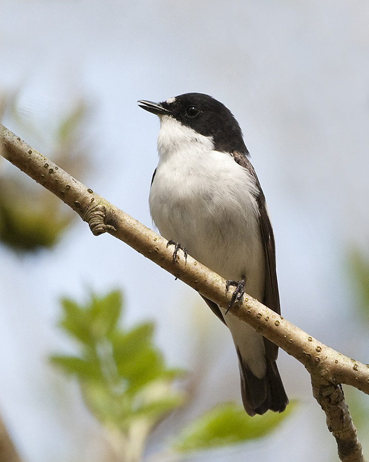 A male Pied Flycatcher at Wood of Cree Nature Reserve, near Newton Stewart, Dumfries & Galloway, Scotland.